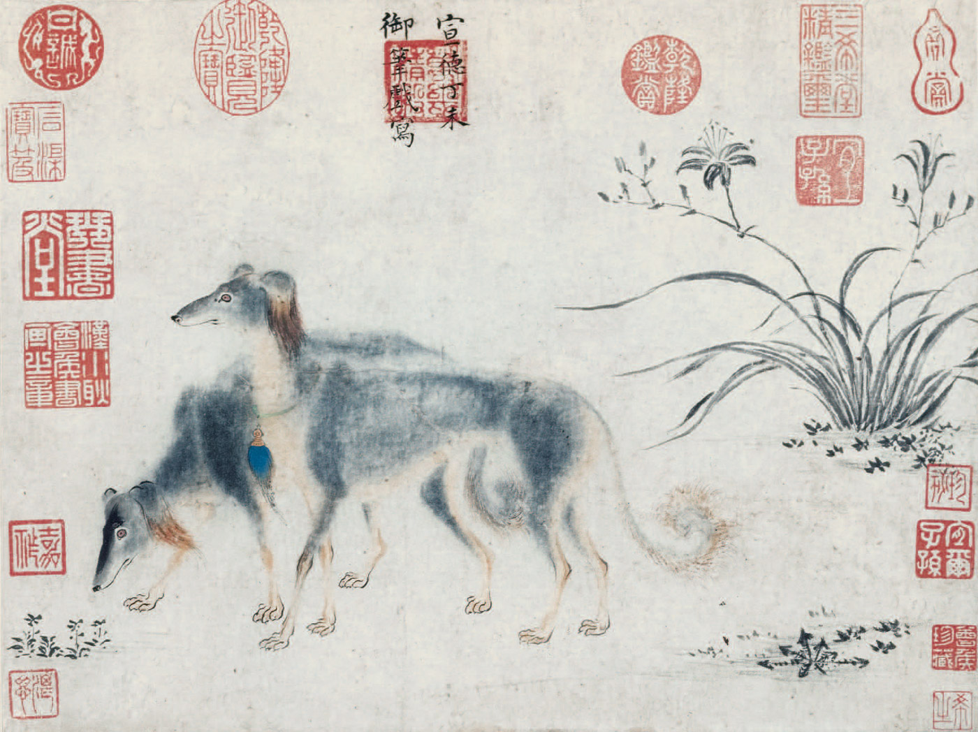 "Saluki hounds", painted by Zhu Zhanji (the Xuande Emperor), from the collection of Arthur M. Sackler Museum